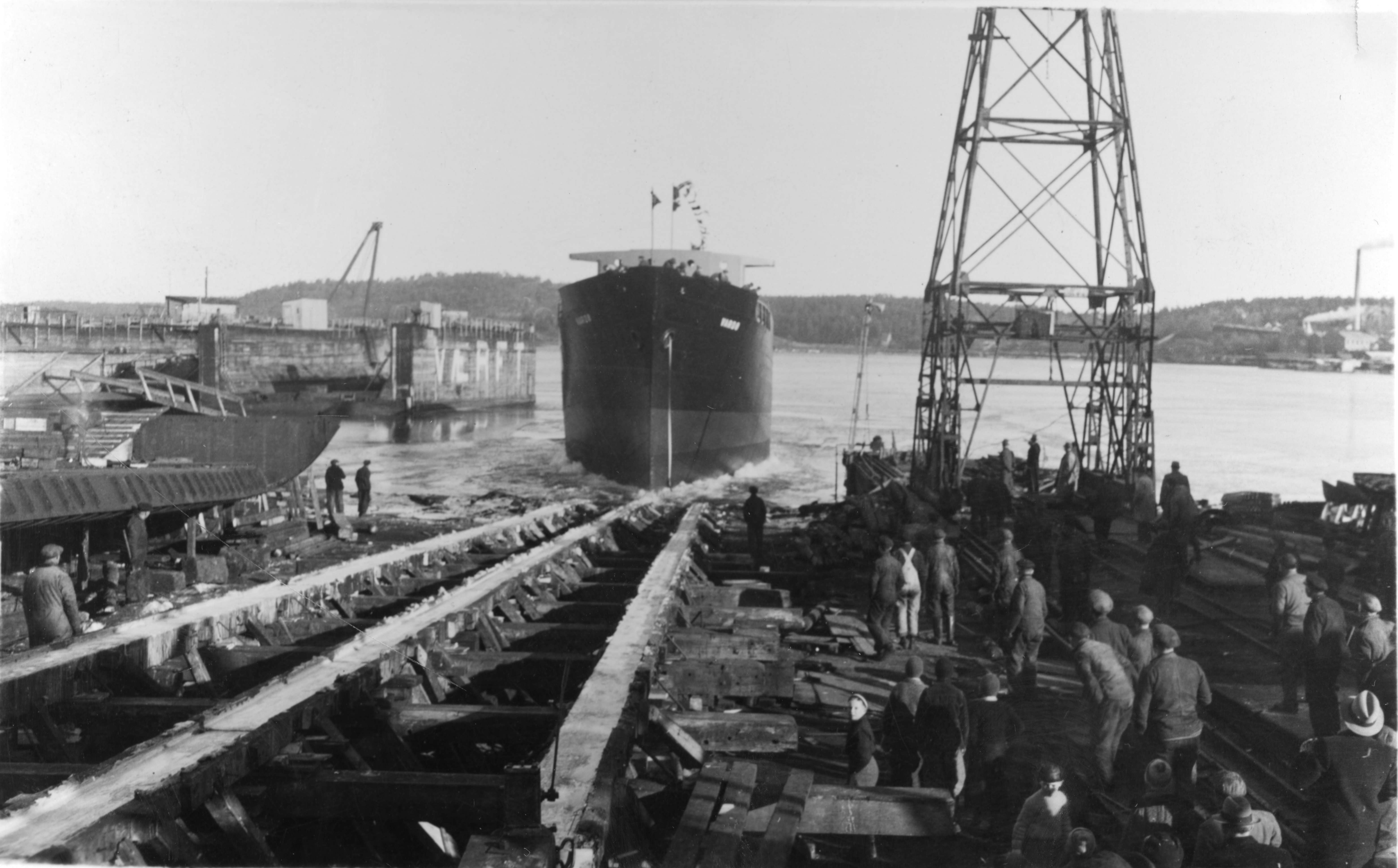 Svart-hvitt bilde fra stabelavløpning av M/S Vardø (1) i Moss. Bildet er fra 1938.